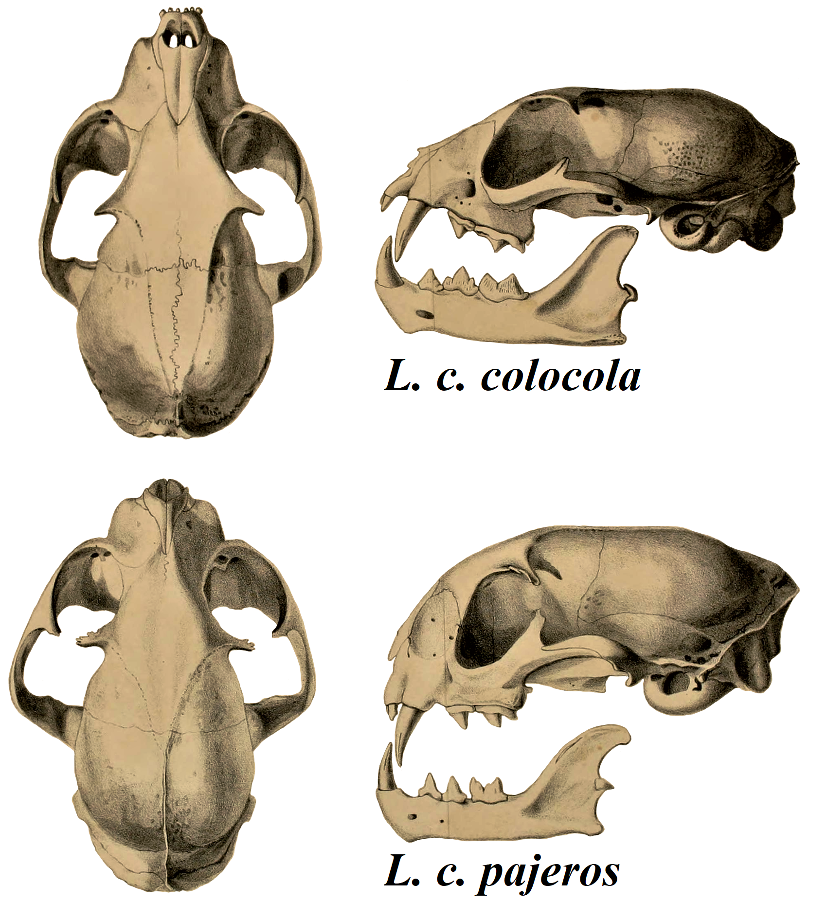 Occipital and lateral views of two Pampas cat subspecies' skulls